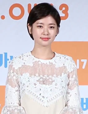 Jung So Min at the press conference for film 'Daddy You, Daughter Me'